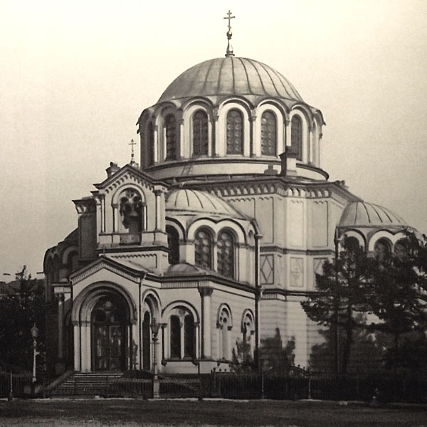 Dmitry Solunsky church in Saint Petersburg. Built in 1860s by Roman Kuzmin.